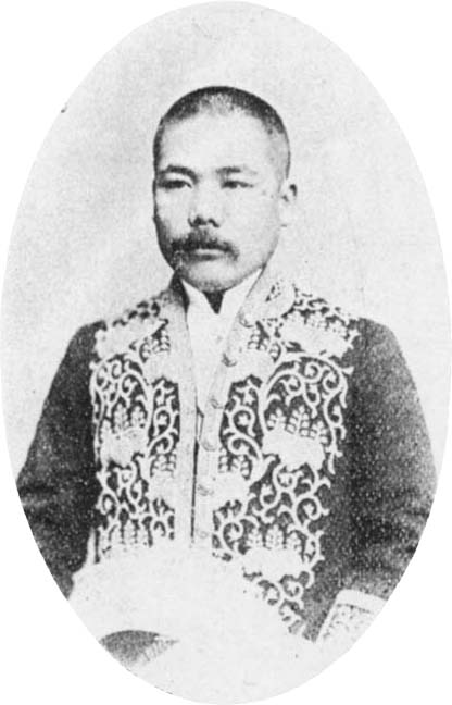 Mr. Kazutoshi Ueda, chief of the Bureau of Special School Affairs of the Department of Education.